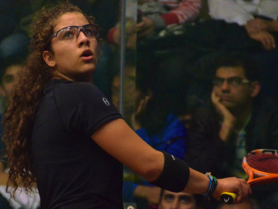 Kanzy El Defrawy in competition.